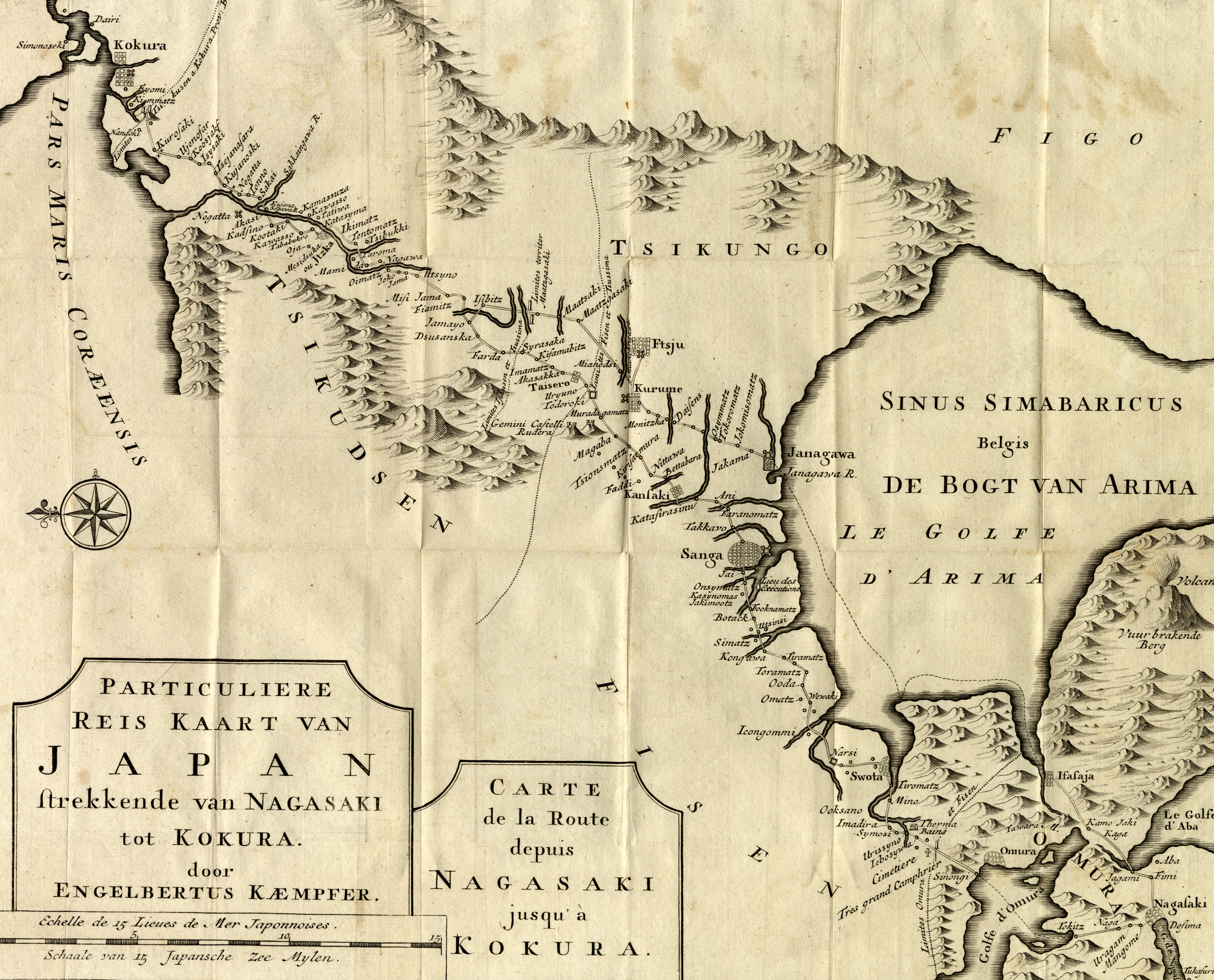 Map of the Nagasaki Highway (Nagasaki kaidō) in Kyushu. Made by Engelbert Kaempfer, first published by J.C. Scheuchzer, reedited in Amsterdam, ca. 1740. (Collection W. Michel, Fukuoka)